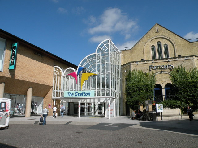 Entrance to the Grafton Centre